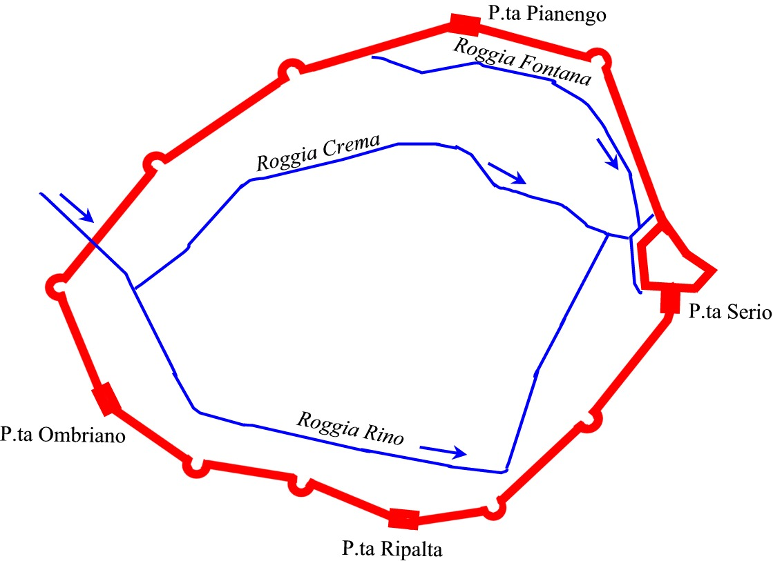 Former canals in Crema (Italy)